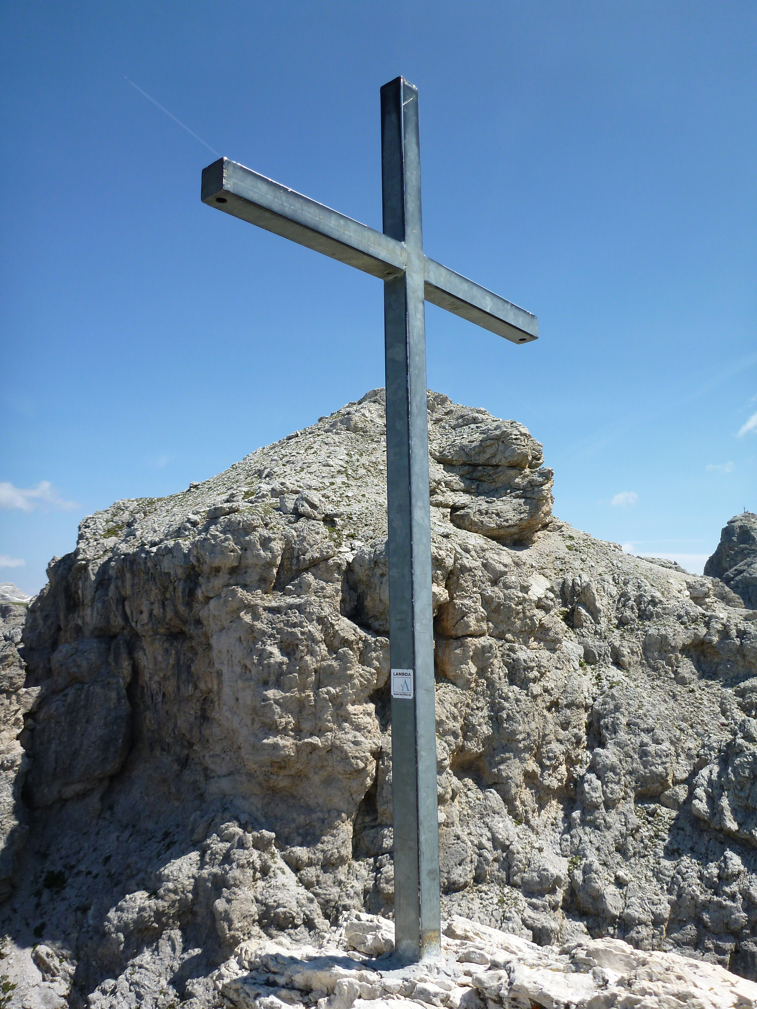 Summit cross of the Kleinen Cirspitze